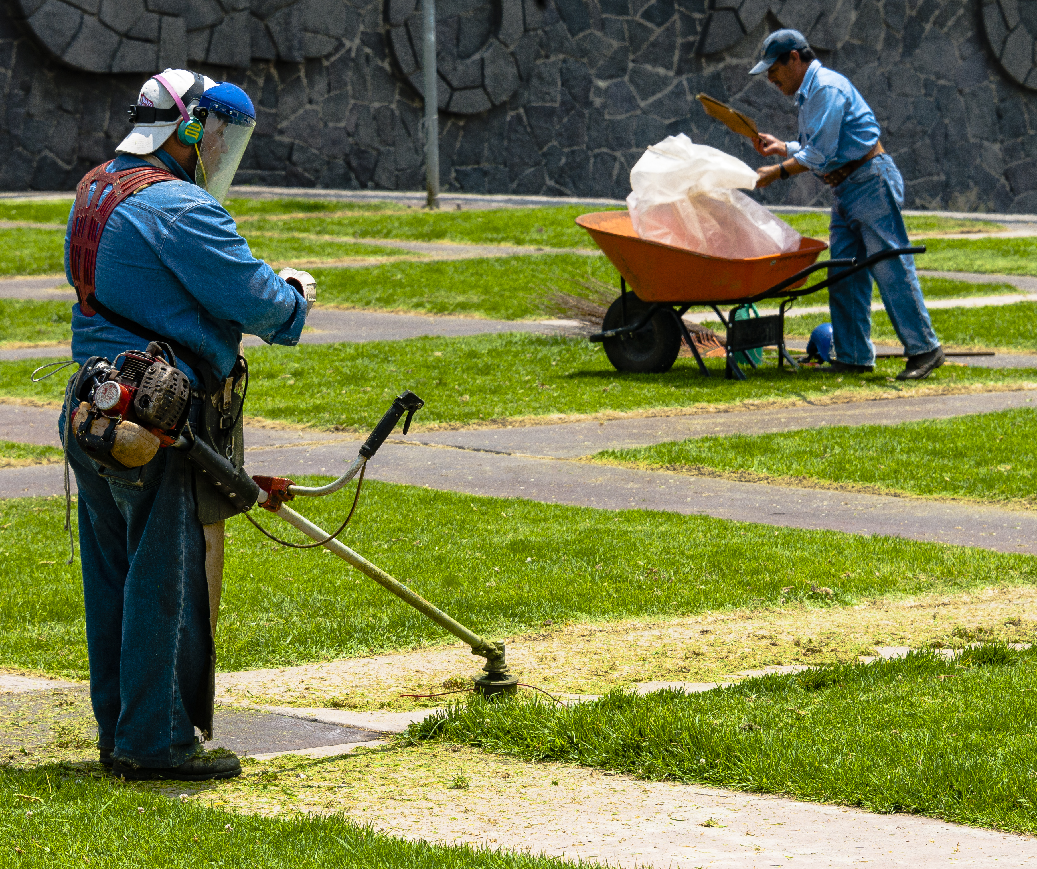 Lawn maintenance at the UNAM Ciudad Universitaria campus